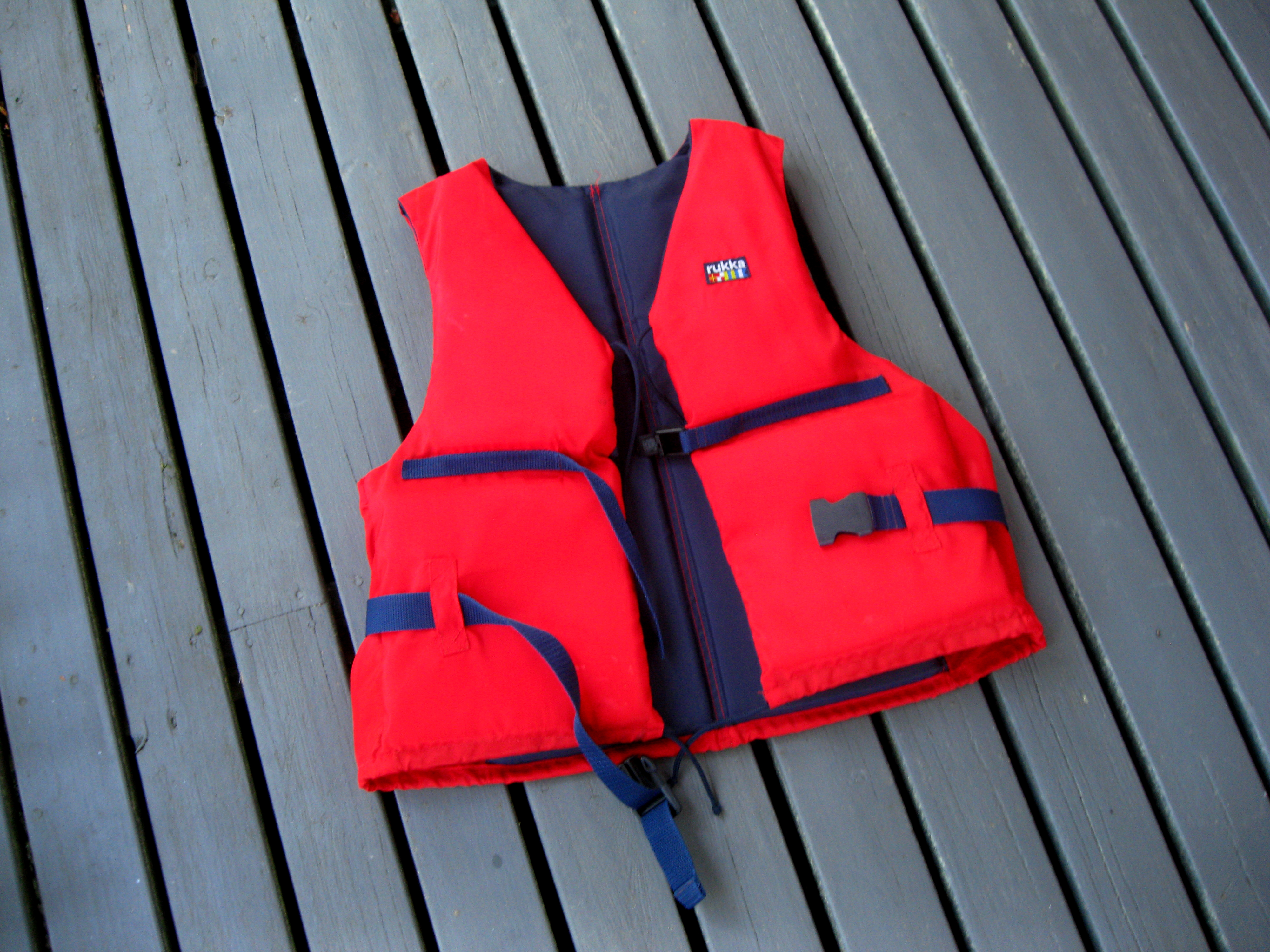 Red life jacket